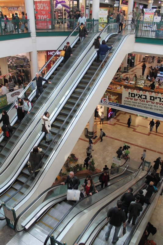 kenyon malha